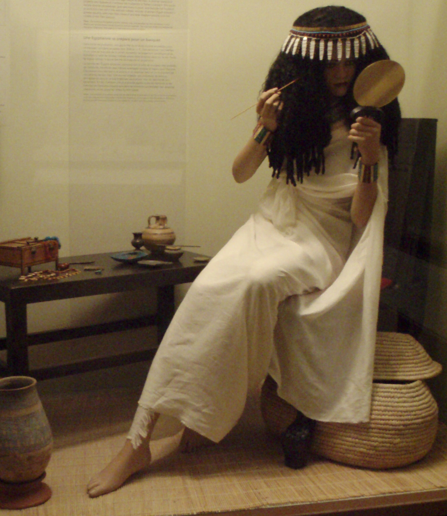 Display depicting an Ancient Egyptian woman (a manequin) applying makeup.